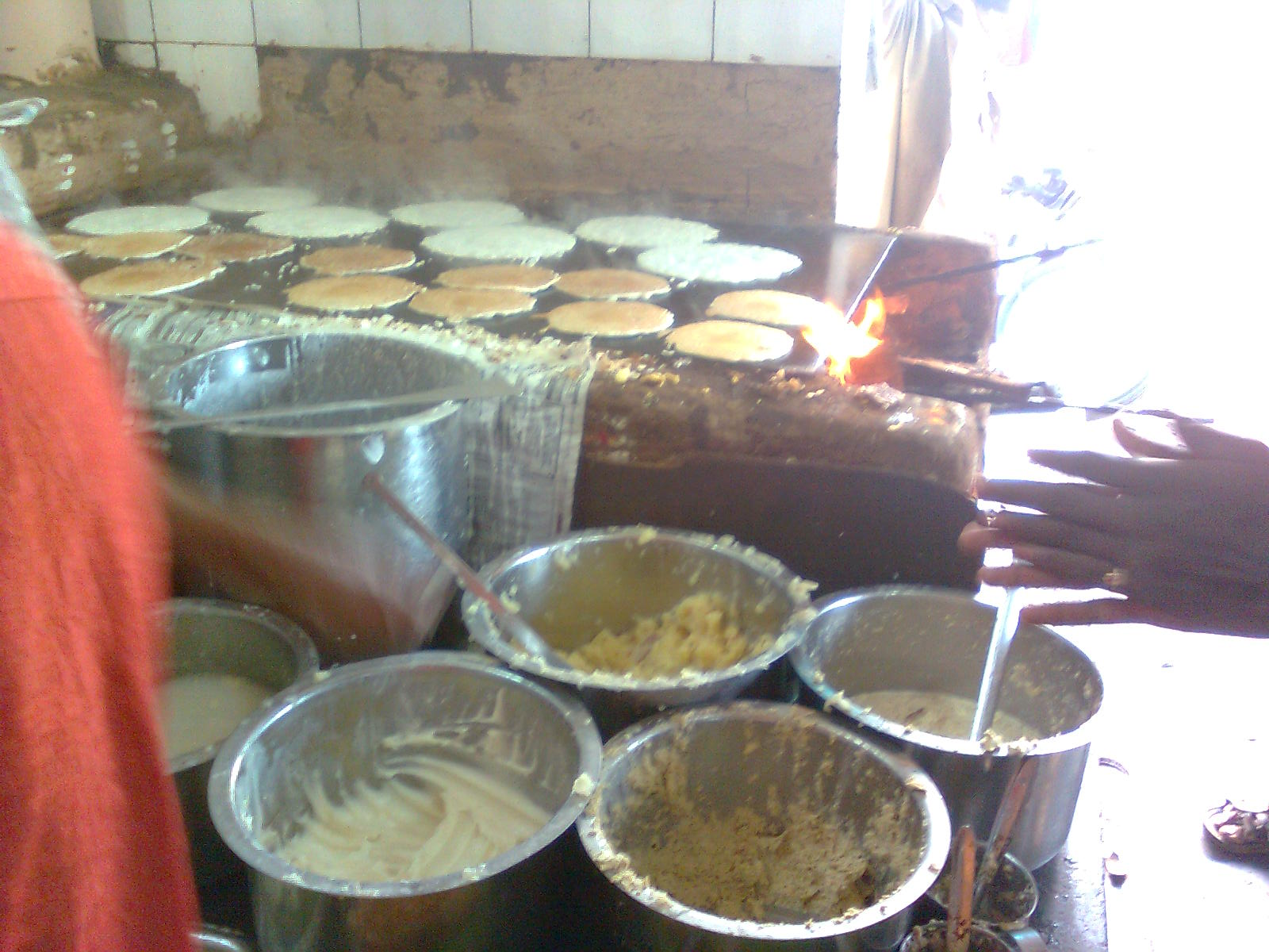 A view of making Benne Dose at Davangere.